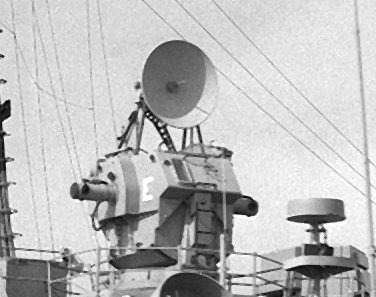 Cropped version focusing on the manned Mark 68 gun fire control system weapons director with parabolic dish for AN/SPG-53F on top; ITU-classificatio: Radiolocation land station in the radiolocation service. Original description:A partial starboard view of the guided missile destroyer USS Coontz (DDG-40), showing the ship's superstructure and masts.